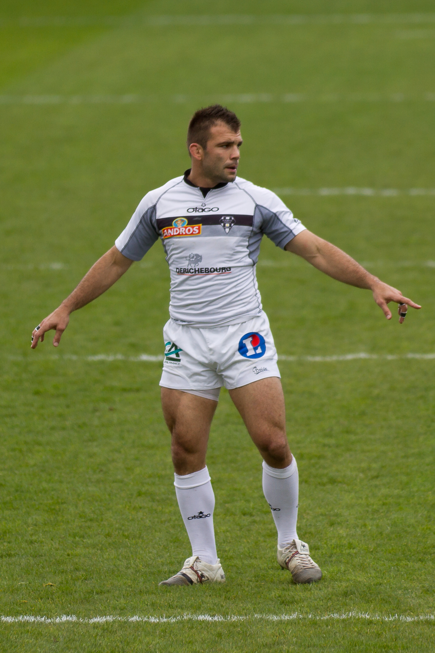 Top 14 — 21 April 2012, Stade Ernest-Wallon. Match between: Stade toulousain — CA Brive - Arnaud Mignardi